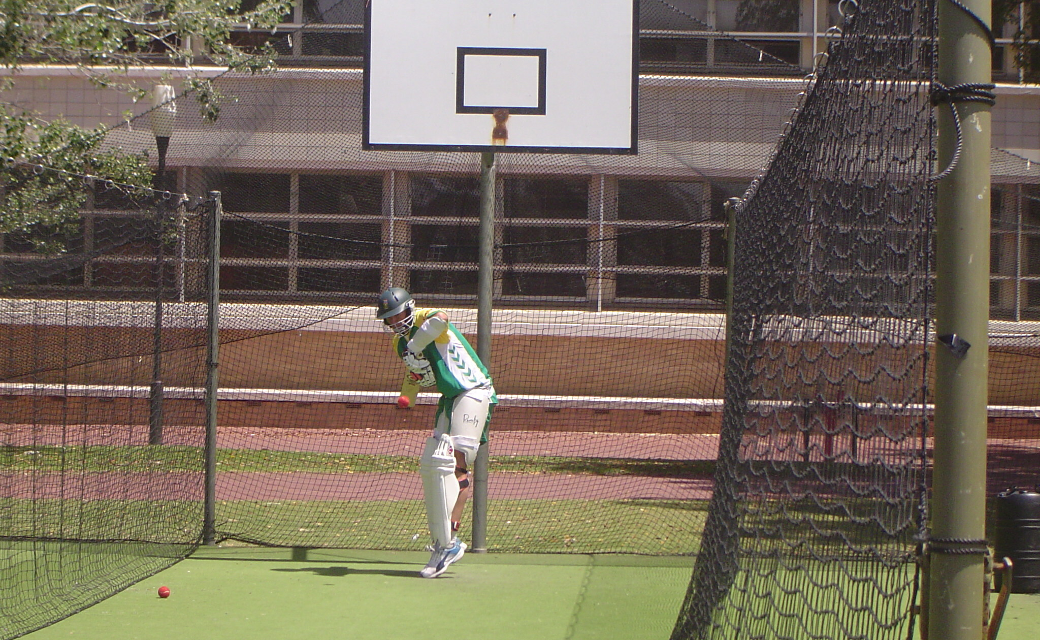 A.Nel in the nets receives a fast ball at his torso Photo by Julian Berzins